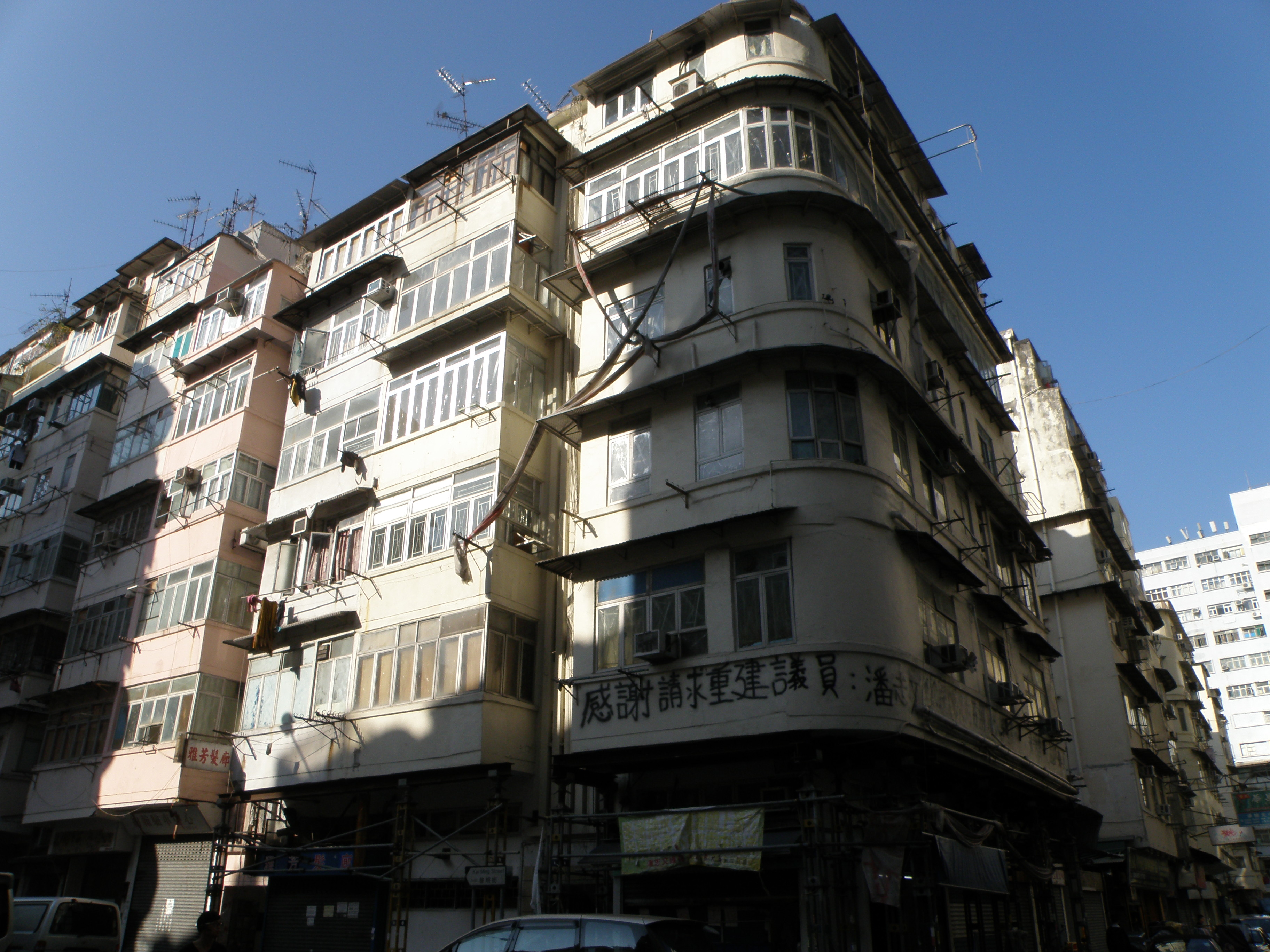 Kai Ming Street redevolpment project in To Kwa Wan, Hong Kong.